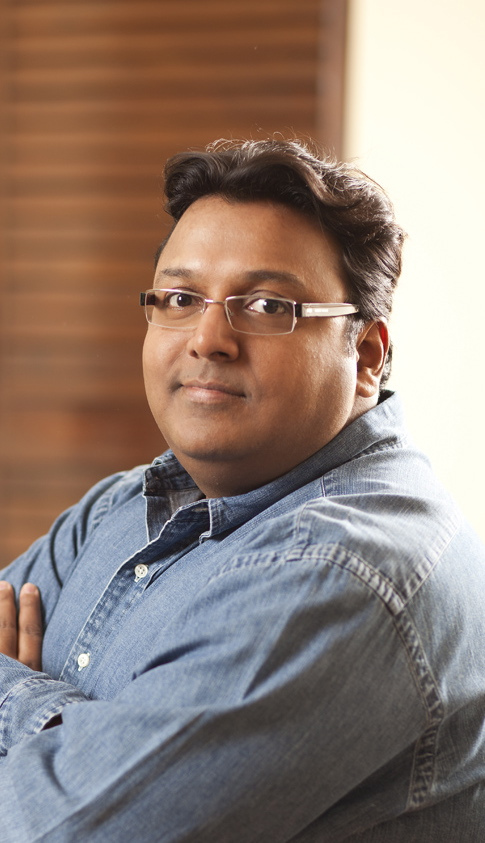 Ashwin Sanghi, [Indian author.